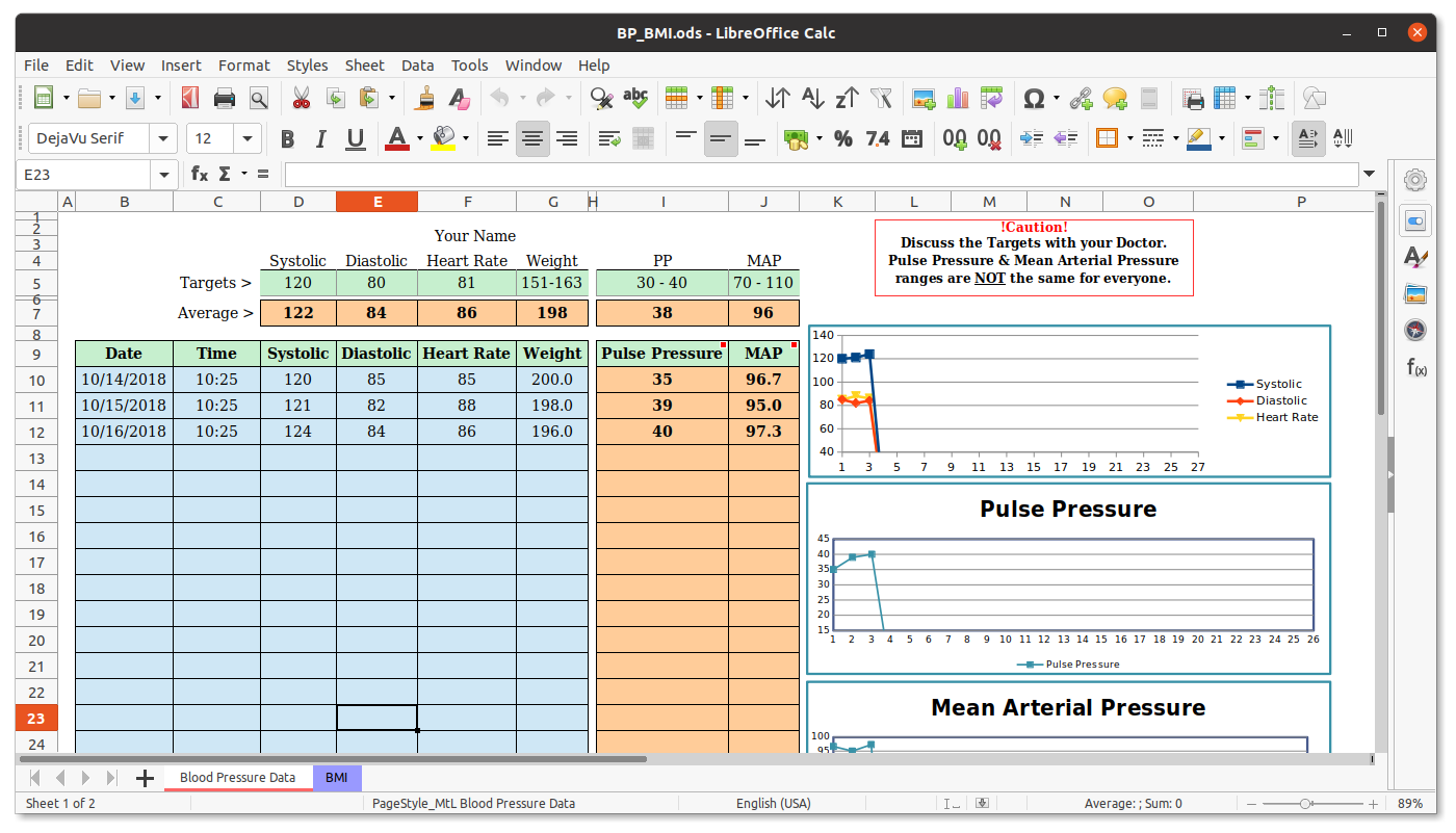 Screenshots of LibreOffice Calc 6.4 running on Ubuntu 20.04.